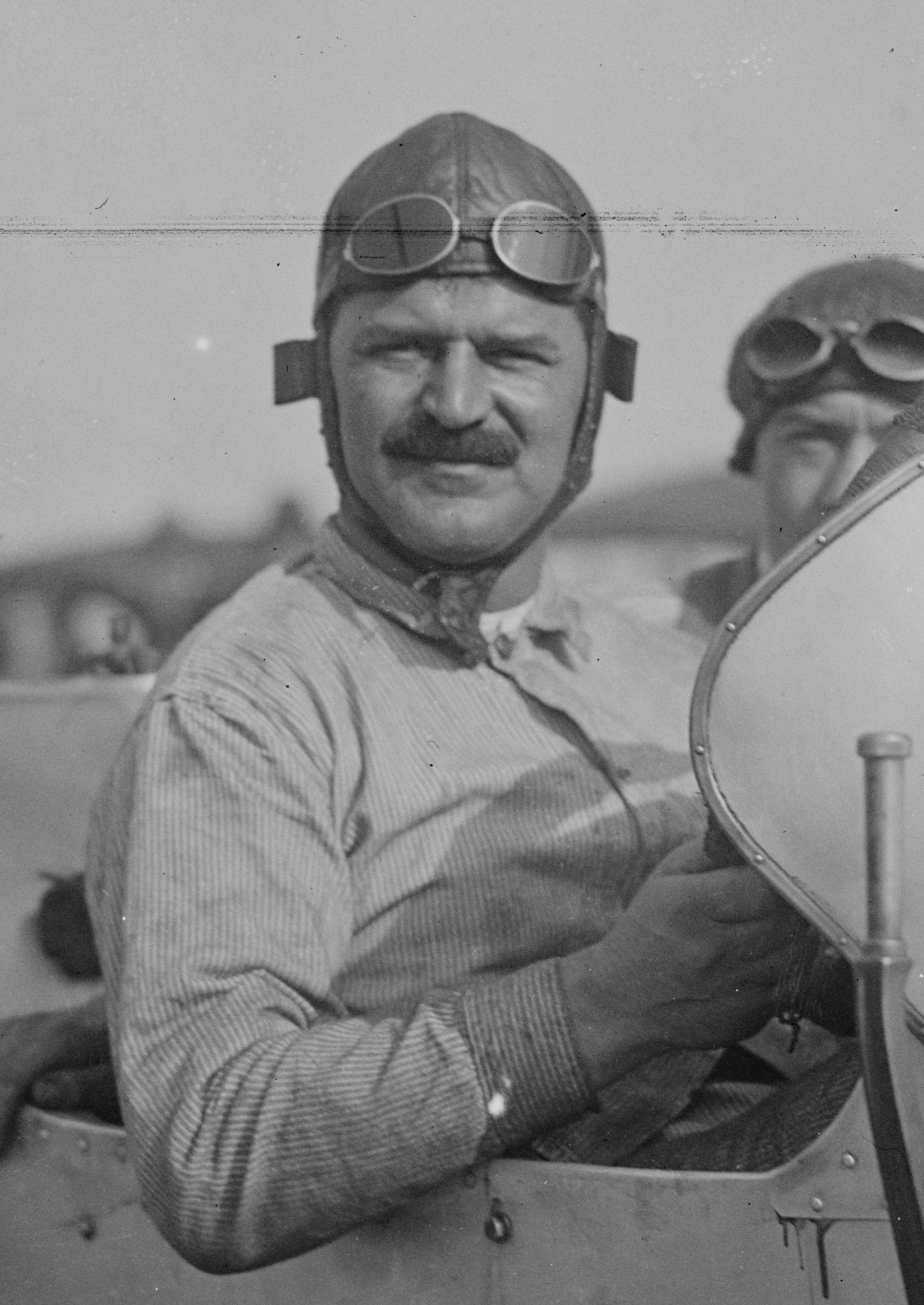 Louis Chevrolet (1878-1941), Swiss-American racing car driver